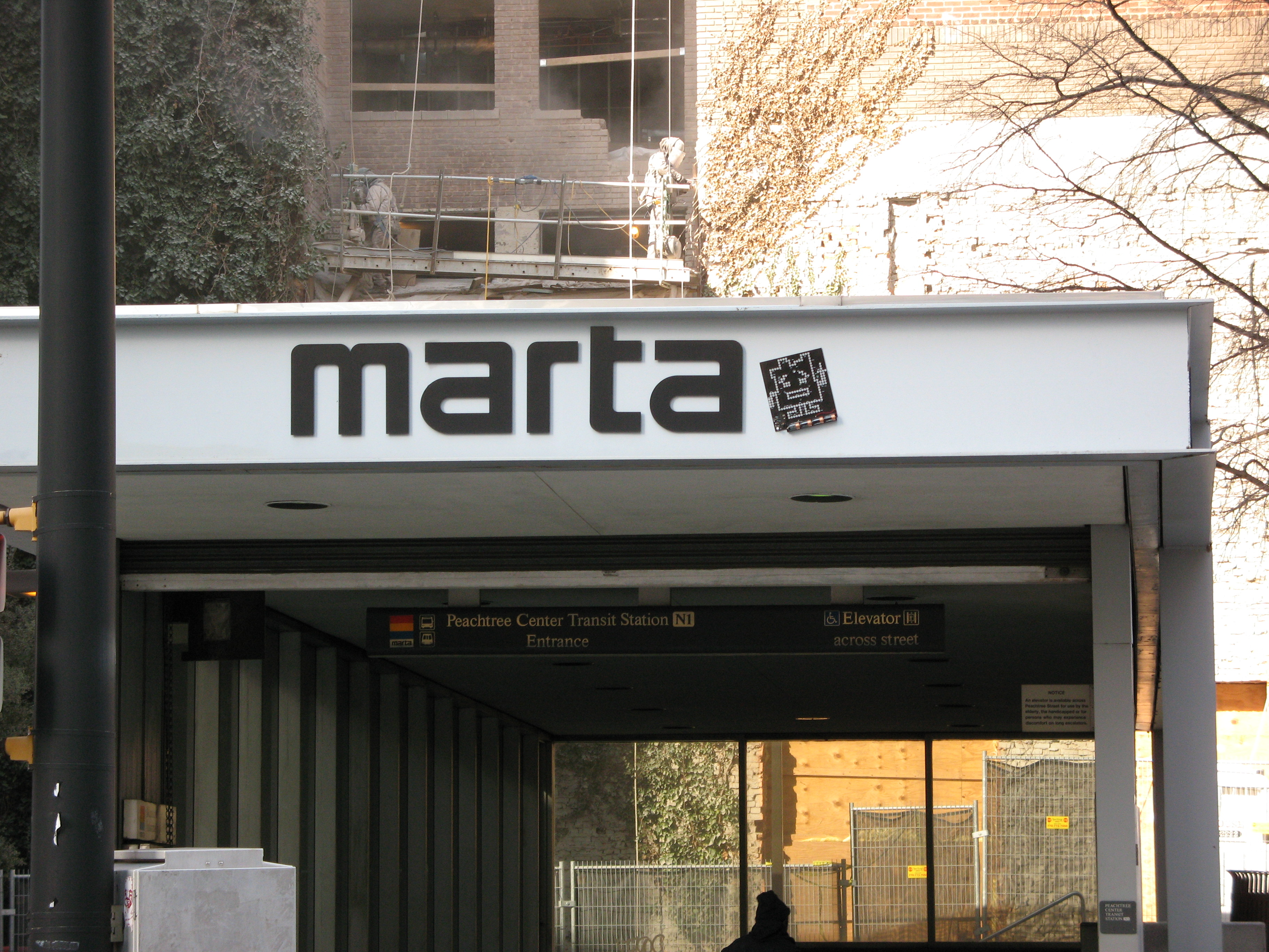 Atlanta MARTA Peachtree Center Station with Aqua Teen Hunger Force LED ad